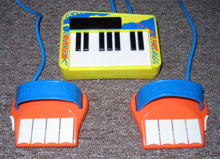 This is a photograph of the 'Hit Keys' toy manufactured by Nasta in 1989. I took this photo myself. Nigel Tufnel